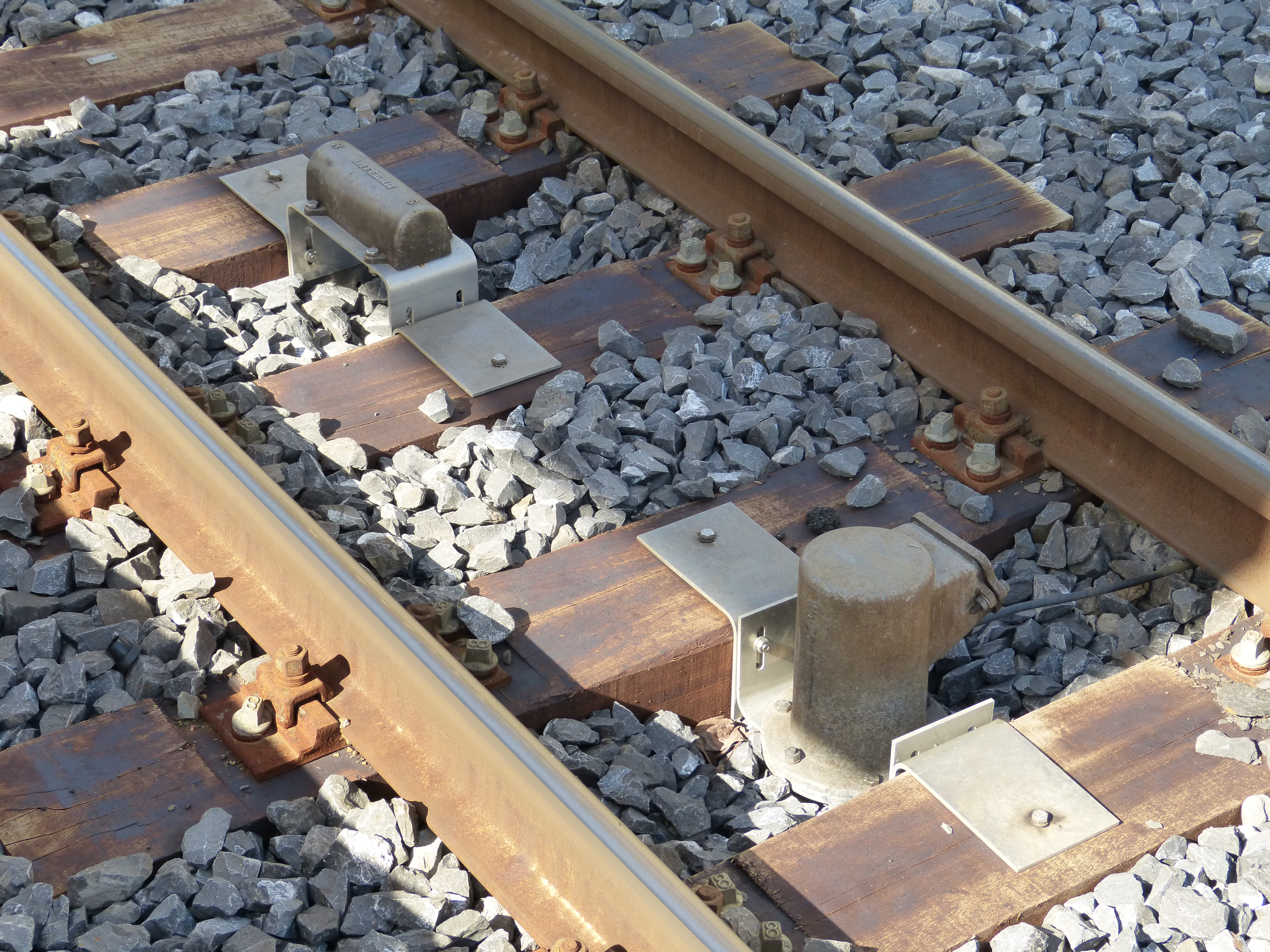 Integra trackside magnets in Union-Prilly station.